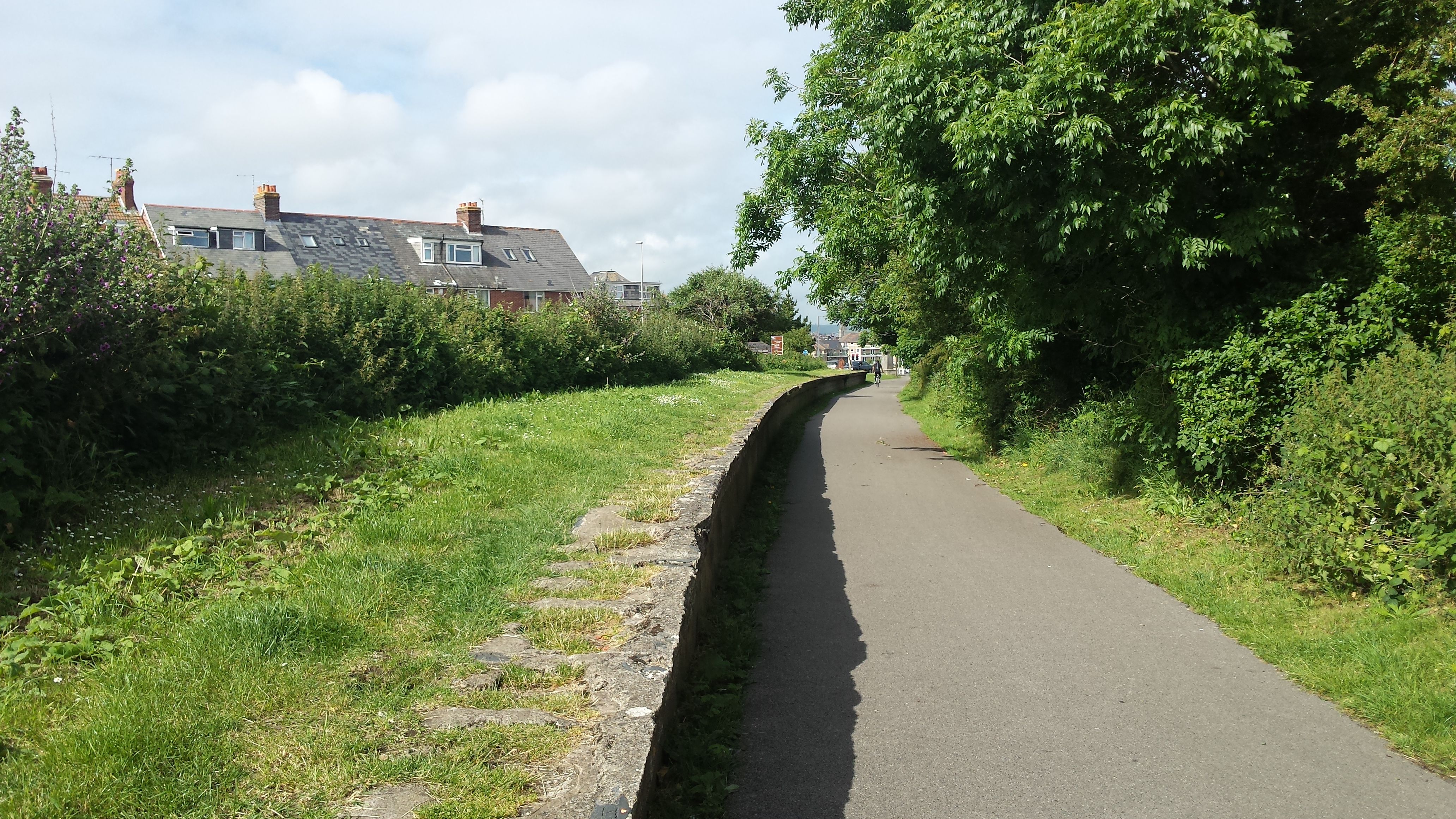 Westham Halt railway station, Weymouth, facing south